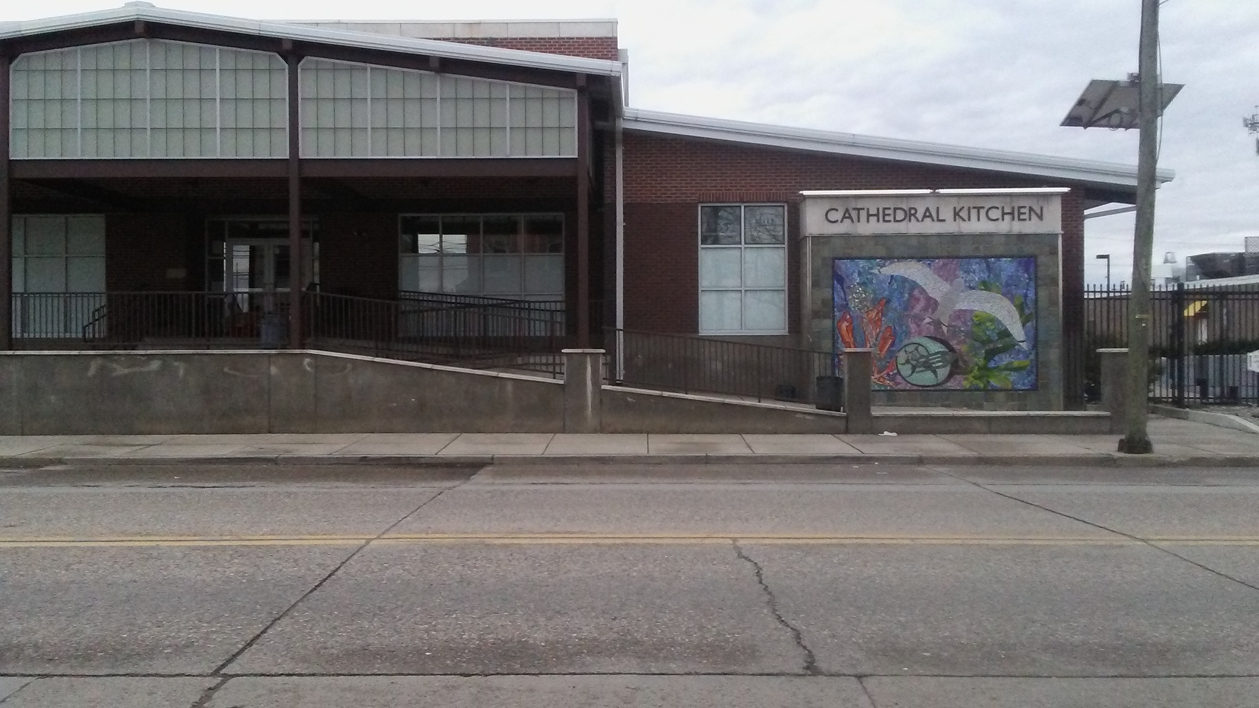 Cathedral Kitchen a Non- Profit Organization located in Camden New Jersey.